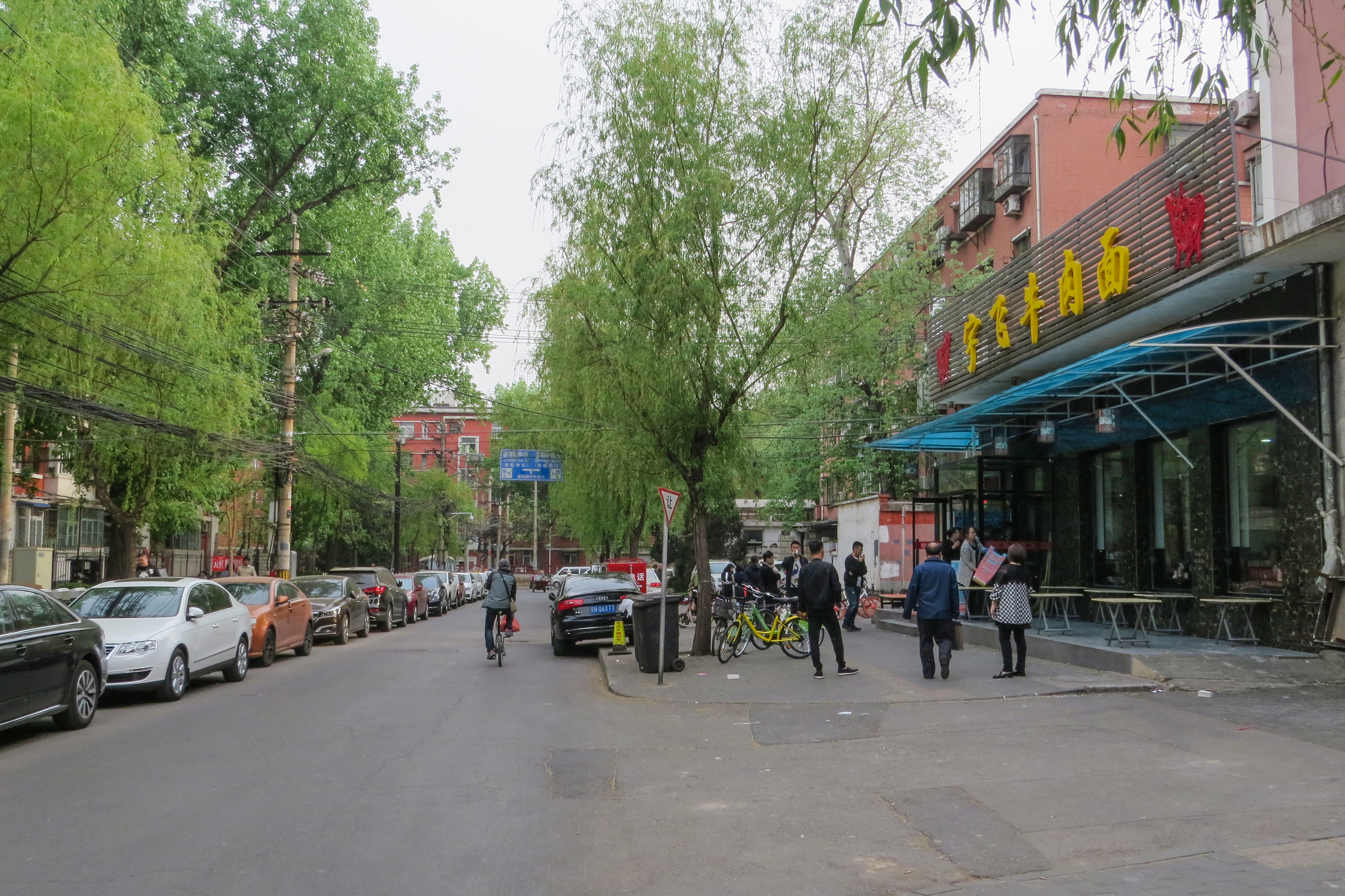 Old-school residential buildings visible.